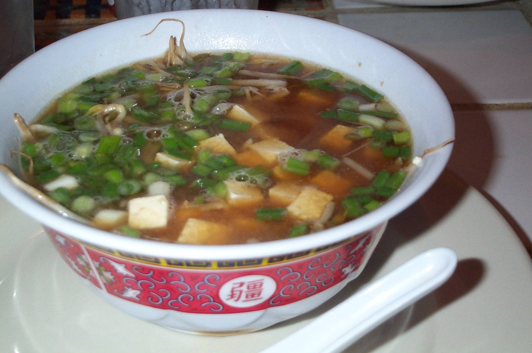 散蓮華を添え、ラーメンどんぶりになみなみと注がれた国籍不明の豆腐入り味噌汁 Unidentified miso soup in chinese bowl and chinese spoon